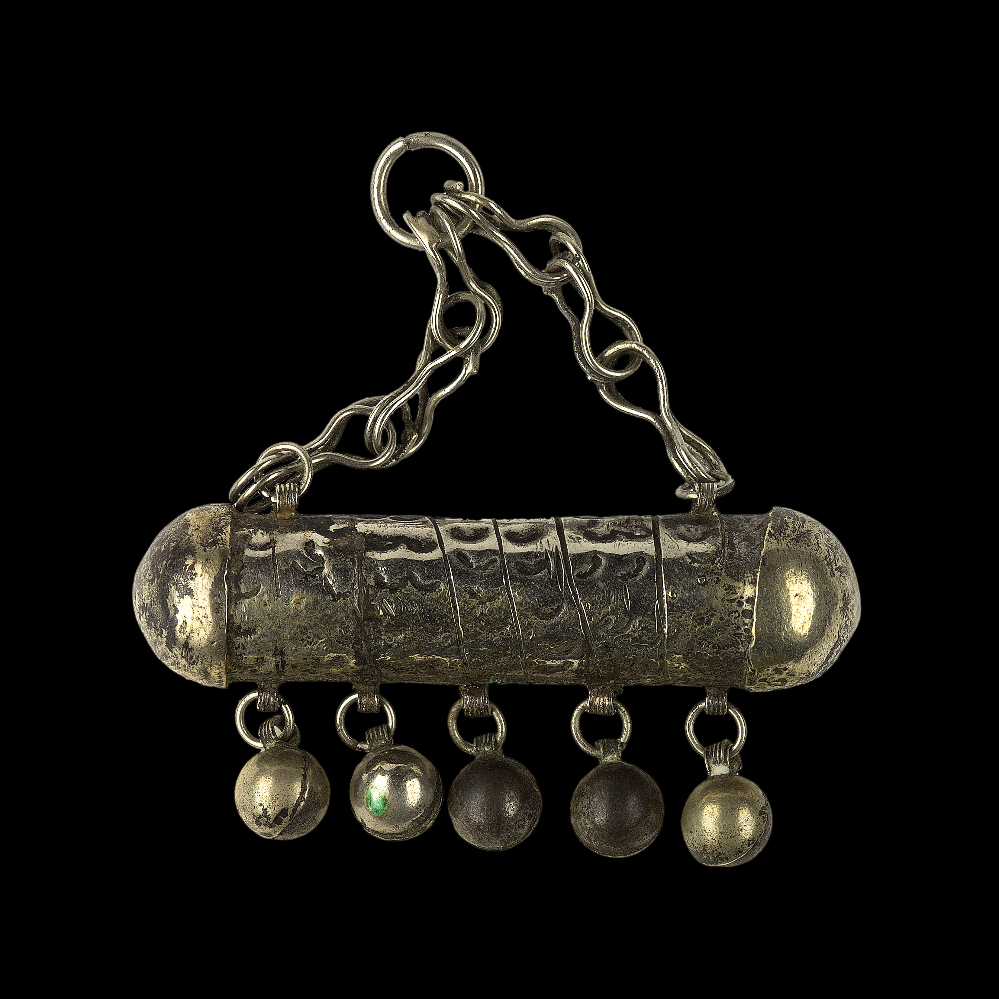 Quran-box pendant engraved silver Population : Siwa Oasis Egypt. Collector and collection: Pierre-Henri Giscard, Institut des déserts Date of collection: 20th century date QS:P,+1950-00-00T00:00:00Z/7 Materials: silver Size : 6,0 x 6,0 x 1,7 cm